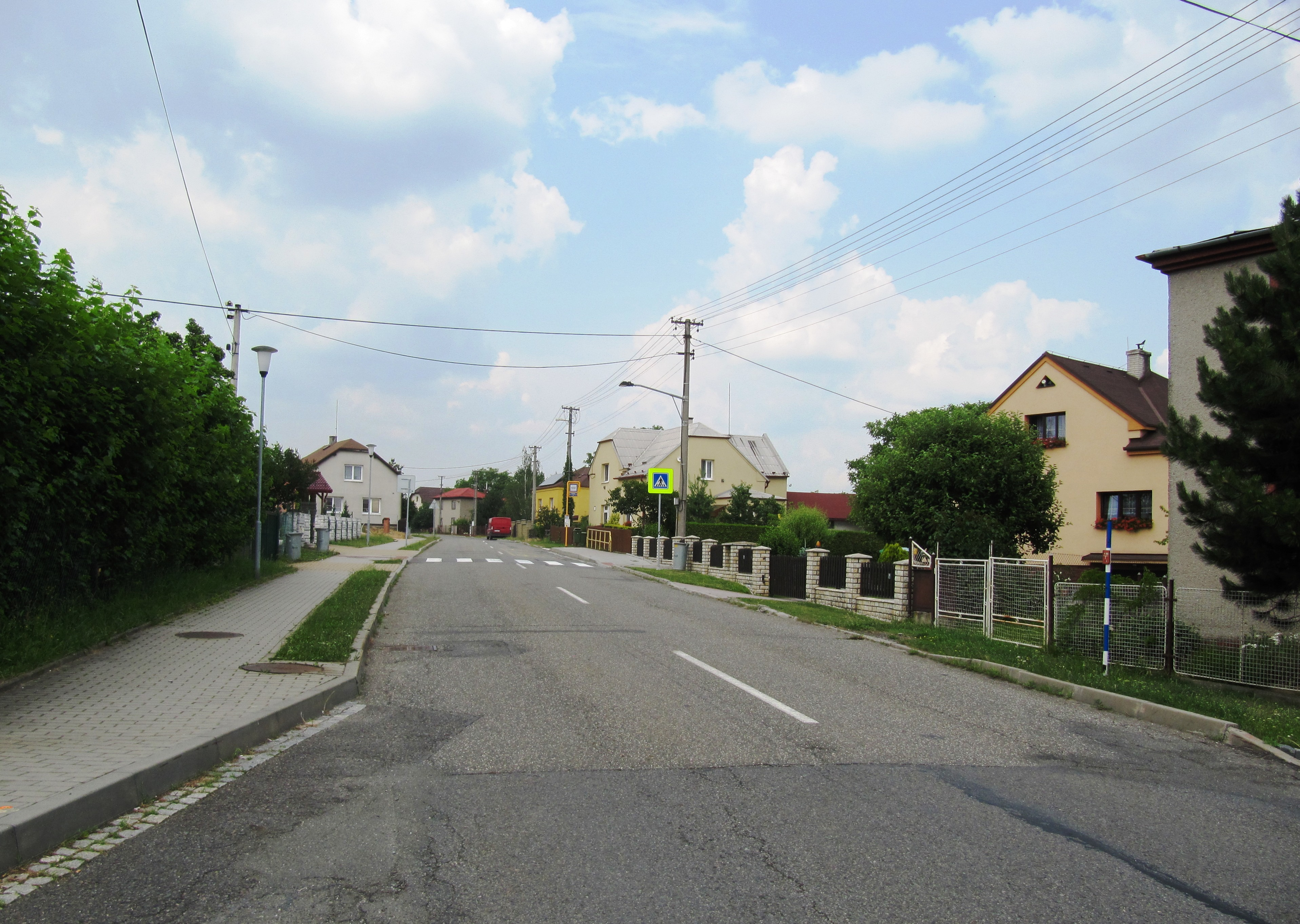 Klimkovice, Ostrava-City District, Czech Republic, part Hýlov.